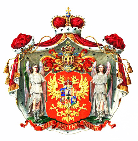 Cantacuzin Russian branch